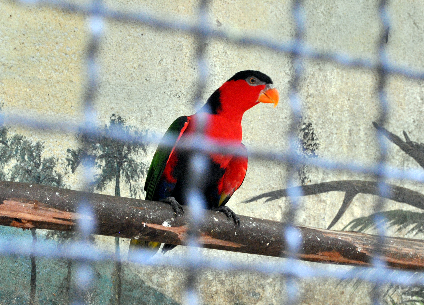 Lorius in Pata Zoo